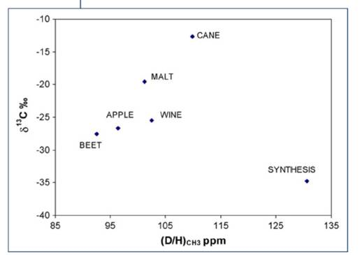 Figure 11 - Application for vinegar